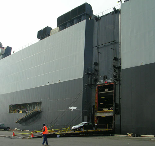 Self taken picture of a Roll-On Roll-Off (RO-RO) ship with ship's name removed to avoid any conflicts. This is only a picture of the Starboard ramp, the Port ramp is identical and the Stern ramp is much larger, capable of handling Main Battle Tanks such as the M1 Abrams.